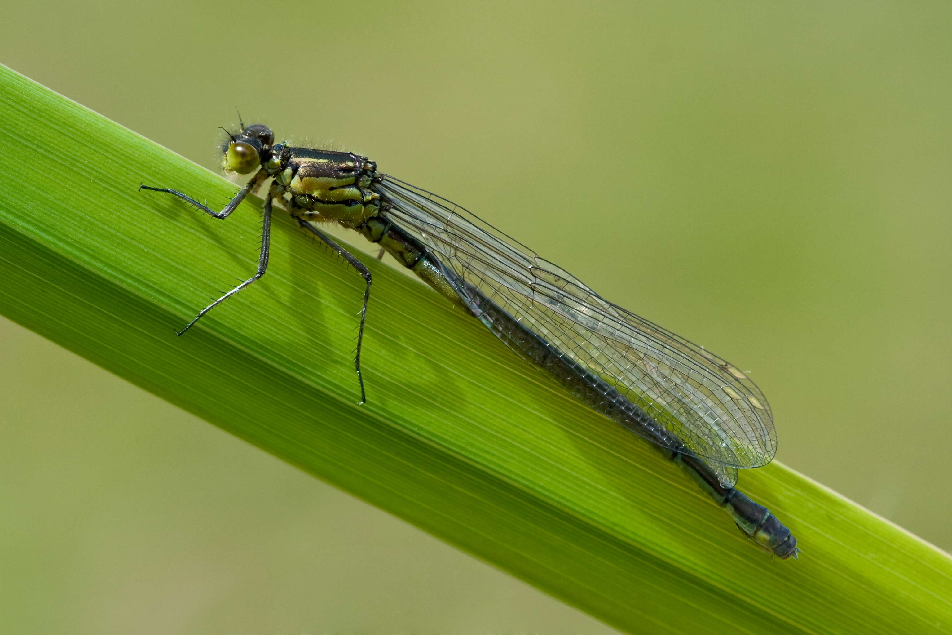 A teneral female of the Red-eyed Damselfly (Erythromma najas) at the mirror pond, garden Neuwerk, Castle Gottorf, Schleswig, northern Schleswig-Holstein, Germany. The antehumeral stripe will darken during the maturation in the next few days, so that it can no longer be seen. The Wings of the left are not yet fully deployed. Probably there is an accident during the slip process, it is not clear whether the animal will ever be able to fly. Because of their extended black drawing the females of E.najas are hard to discover in the vegetation outside the reproduction waters.